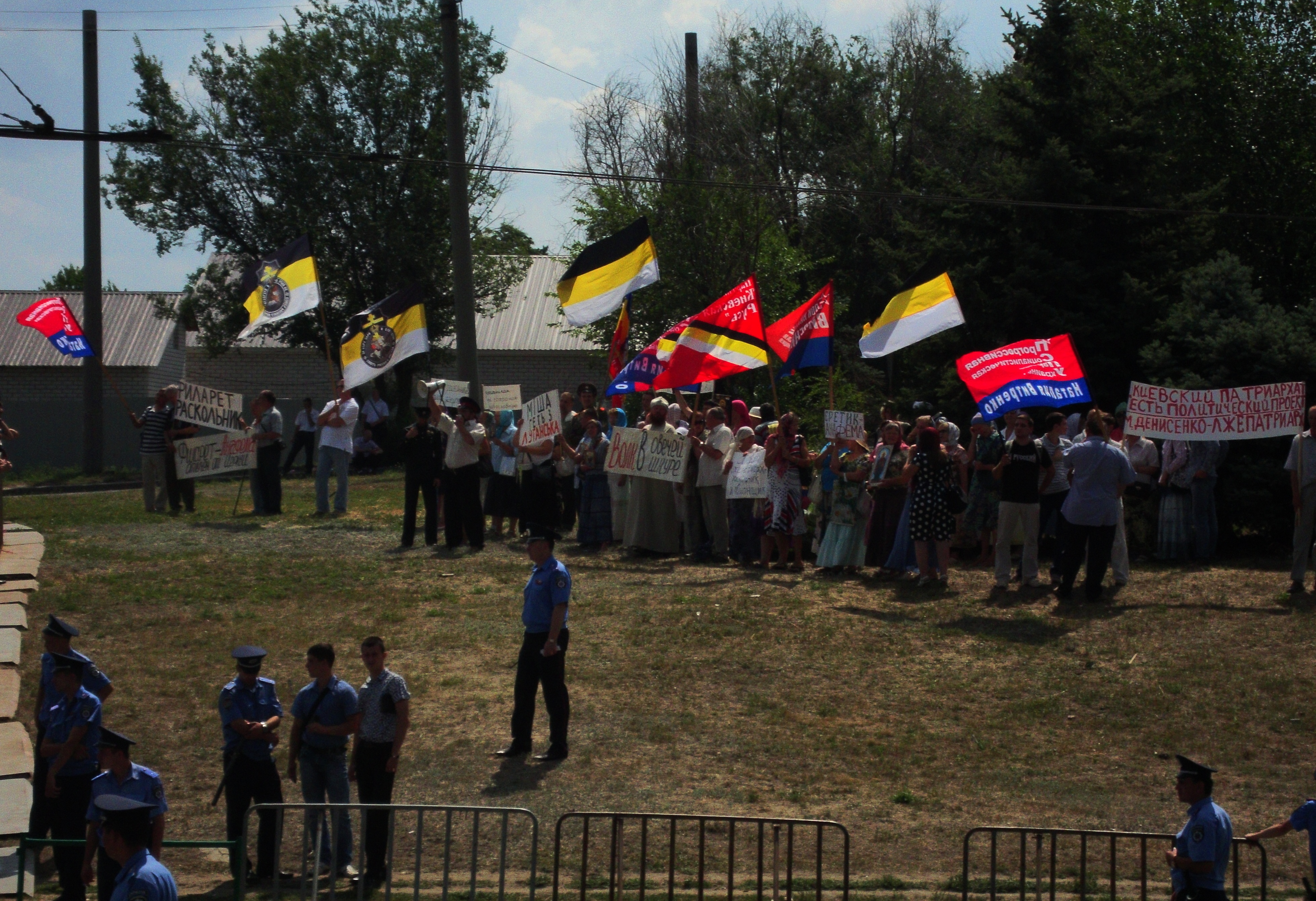 Protest against visit of Patriarch Filaret in Luhansk 20 July 2013